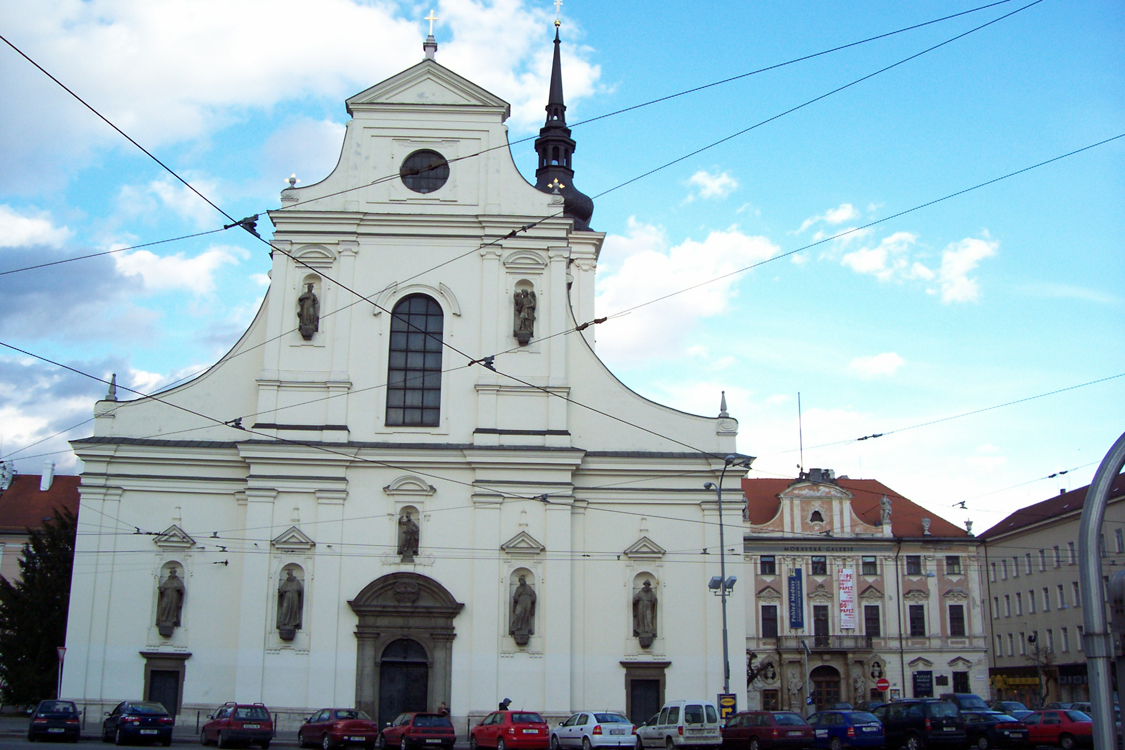 Church of St Thomas in Brno, Czech Republic